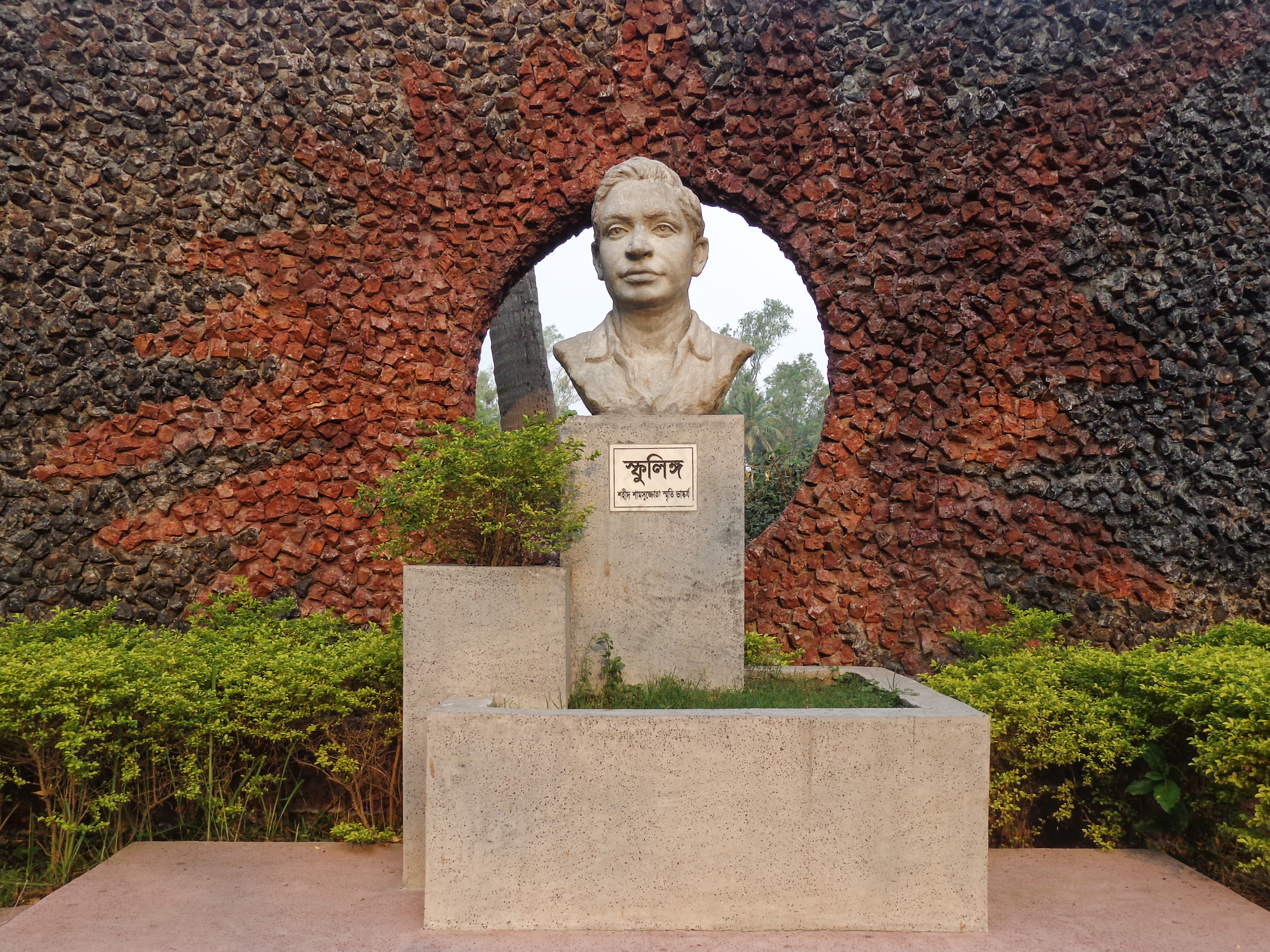 Martyr Shamsuzzoha Memorial Sculpture, aks Isfulingo, at Rajshahi University. This monument is made to remind memory of Mohammad Shamsuzzoha, who was a Bengali educator, professor and proctor at Rajshahi University.